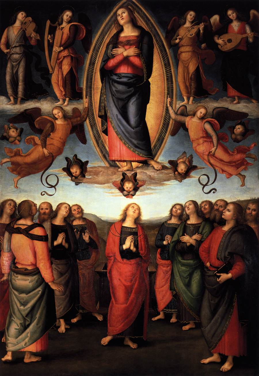 PERUGINO, Pietro Assumption of the Virgin Panel, 333 x 218 cm SS. Annunziate, Florence